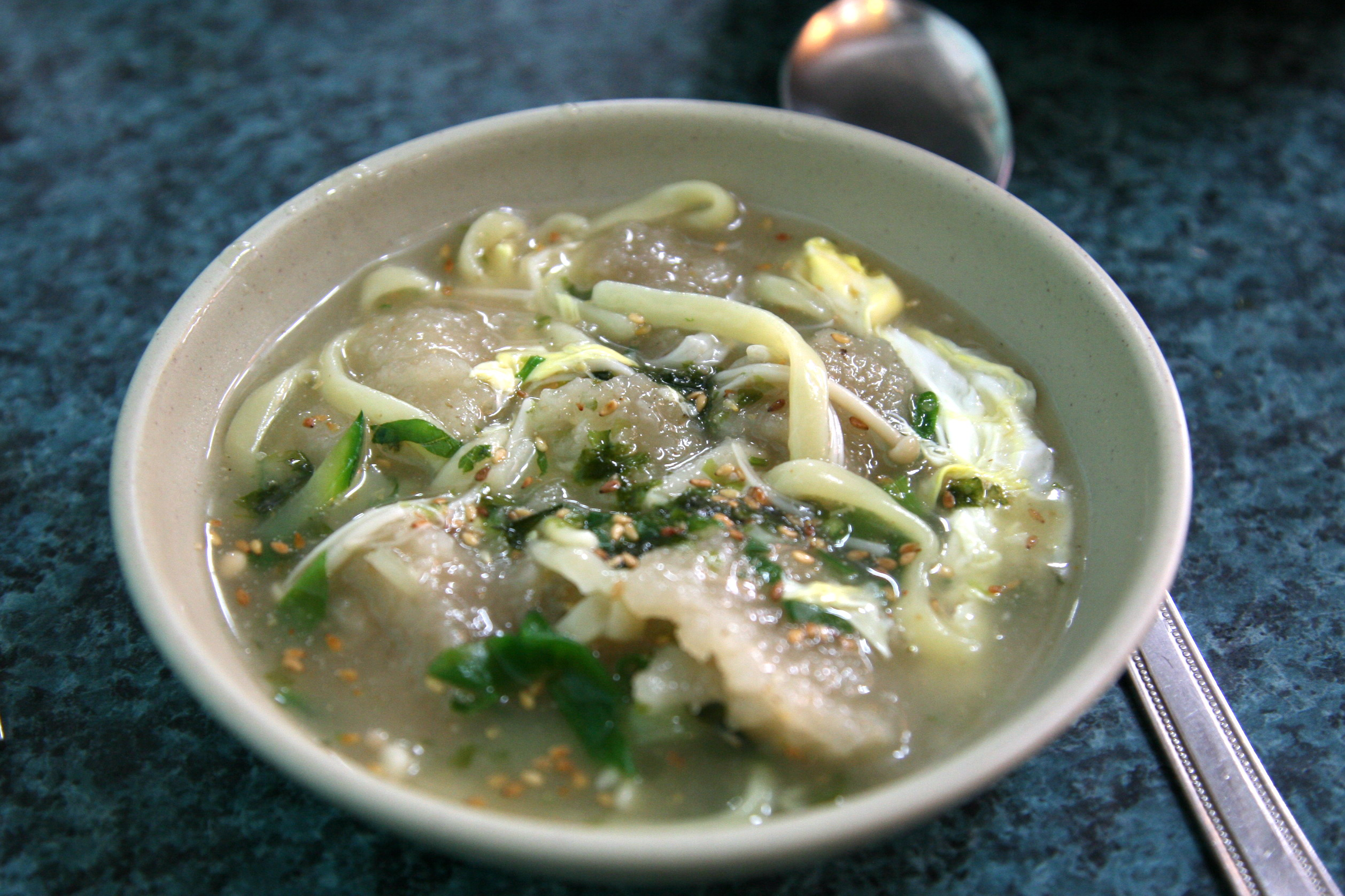 A view of Sokcho, Gangwon-do, South Korea